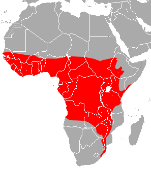 Lander's Horseshoe Bat (Rhinolophus landeri) range